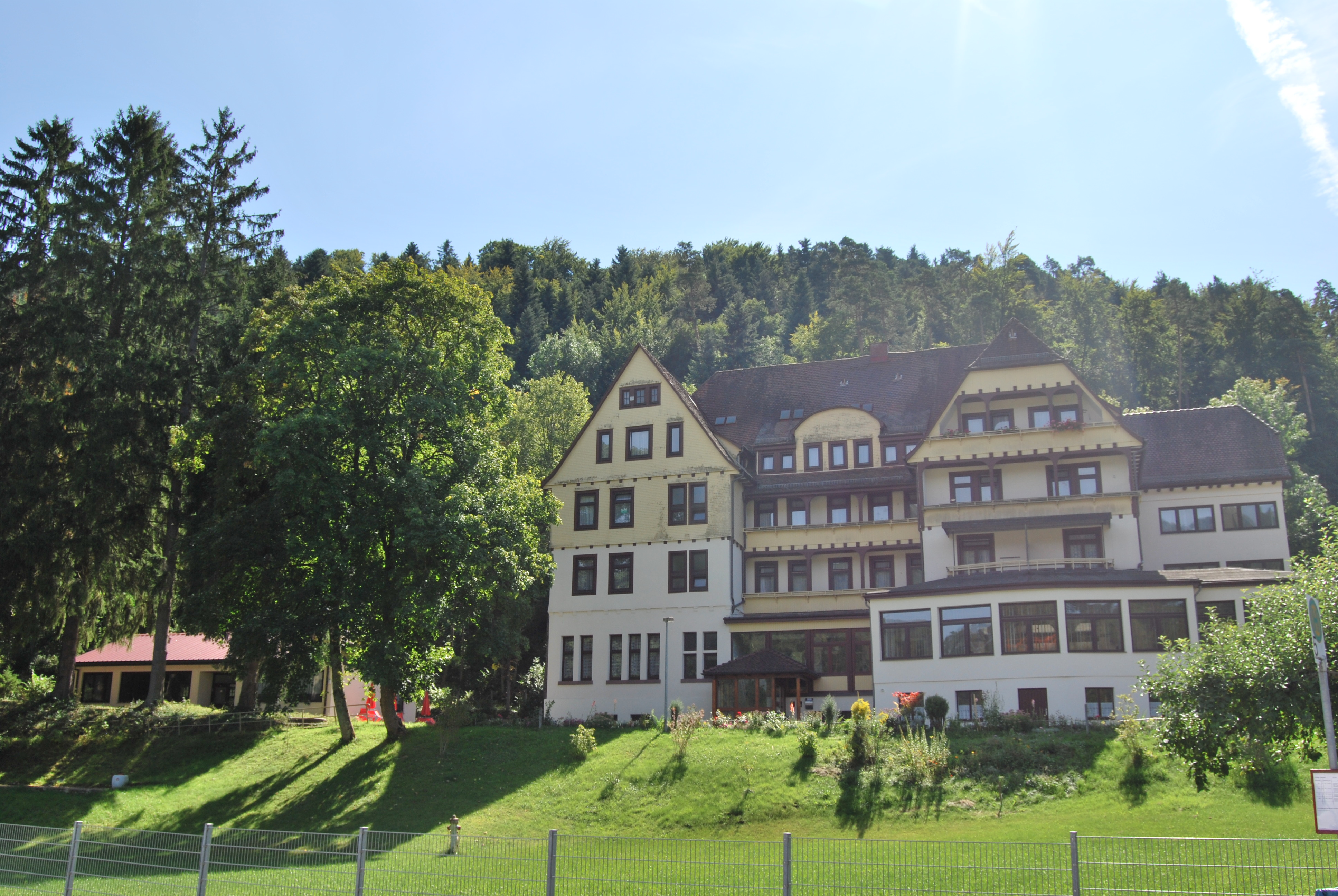 Free Baptists Church Sulz (Haus Friedensborn)